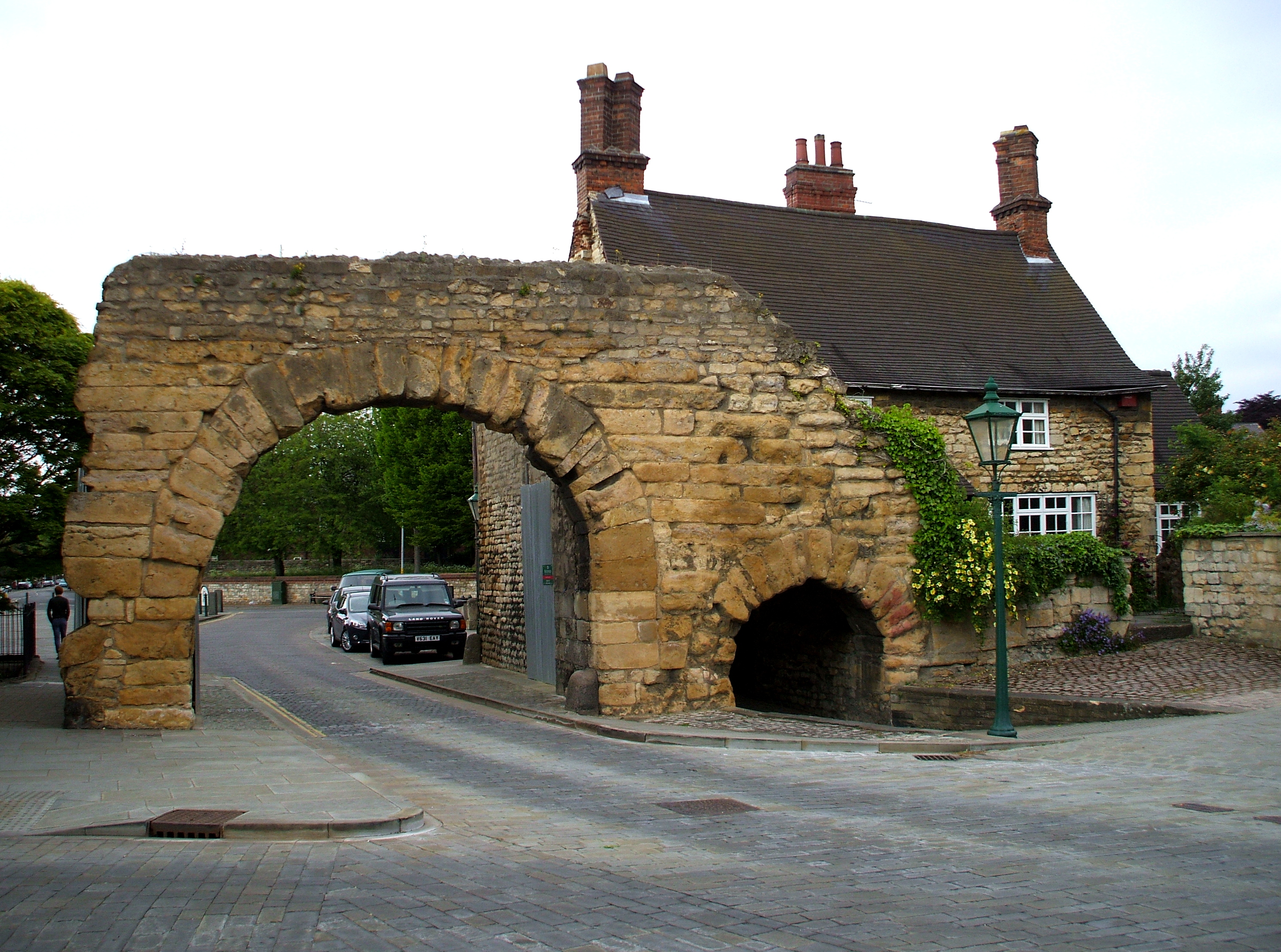 The Newport Arch, a 3rd century north gate to the Roman upper city, Lincoln, England